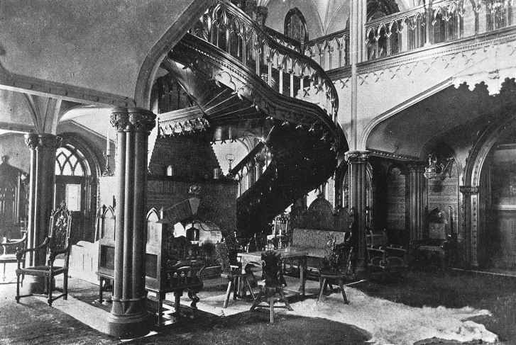 Gothic Gallery in the Baumgarten house, Montreal